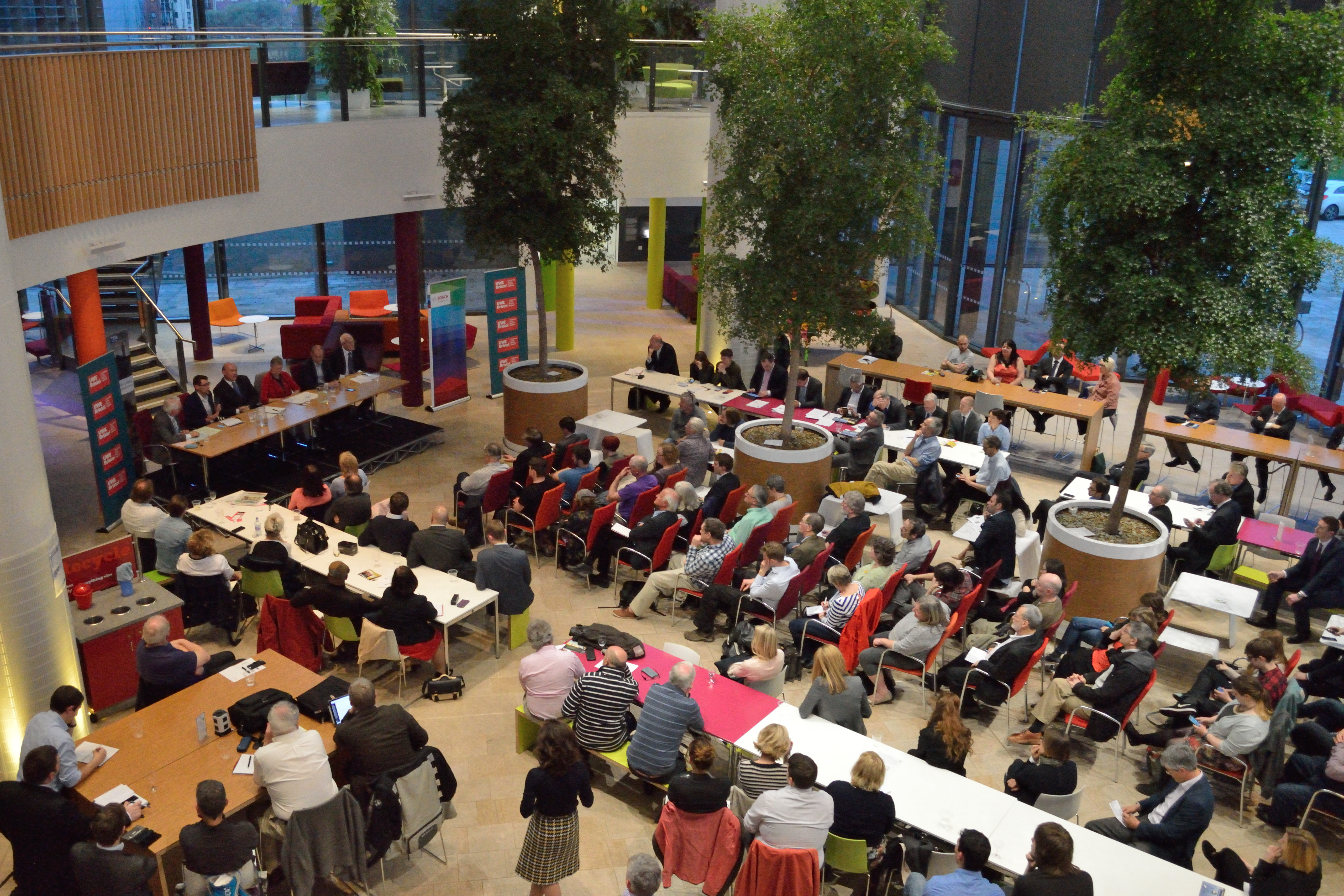 2017 West of England mayoral election Transport Infrastructure Debate, at the Bristol and Bath Science Park. Left to right on panel: Professor Robin Hambleton (chair), Darren Hall (Green). Tim Bowles (Conservative), Lesley Mansell (Labour), Stephen Williams (Liberal Democrat), John Savage (Independent). The UKIP candidate, Aaron Foot, did not attend the debate.